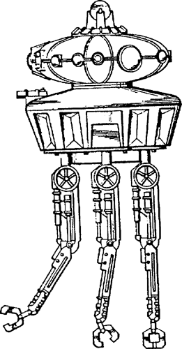 Drawing of a Star Wars probe droid toy